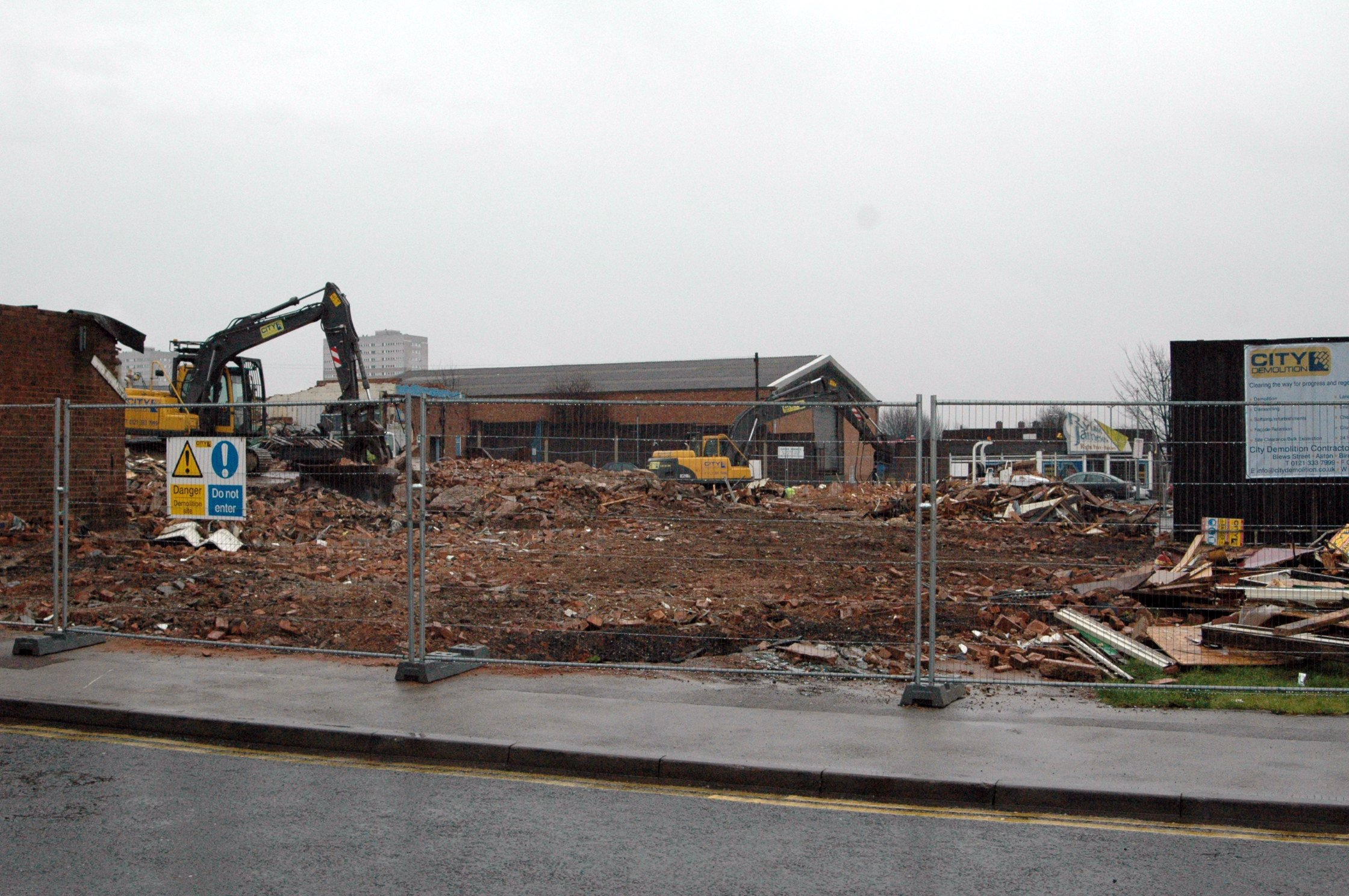 Demolition work beginning on the ventureast development in the Eastside of Birmingham, England, UK. This image was taken from Curzon Street.